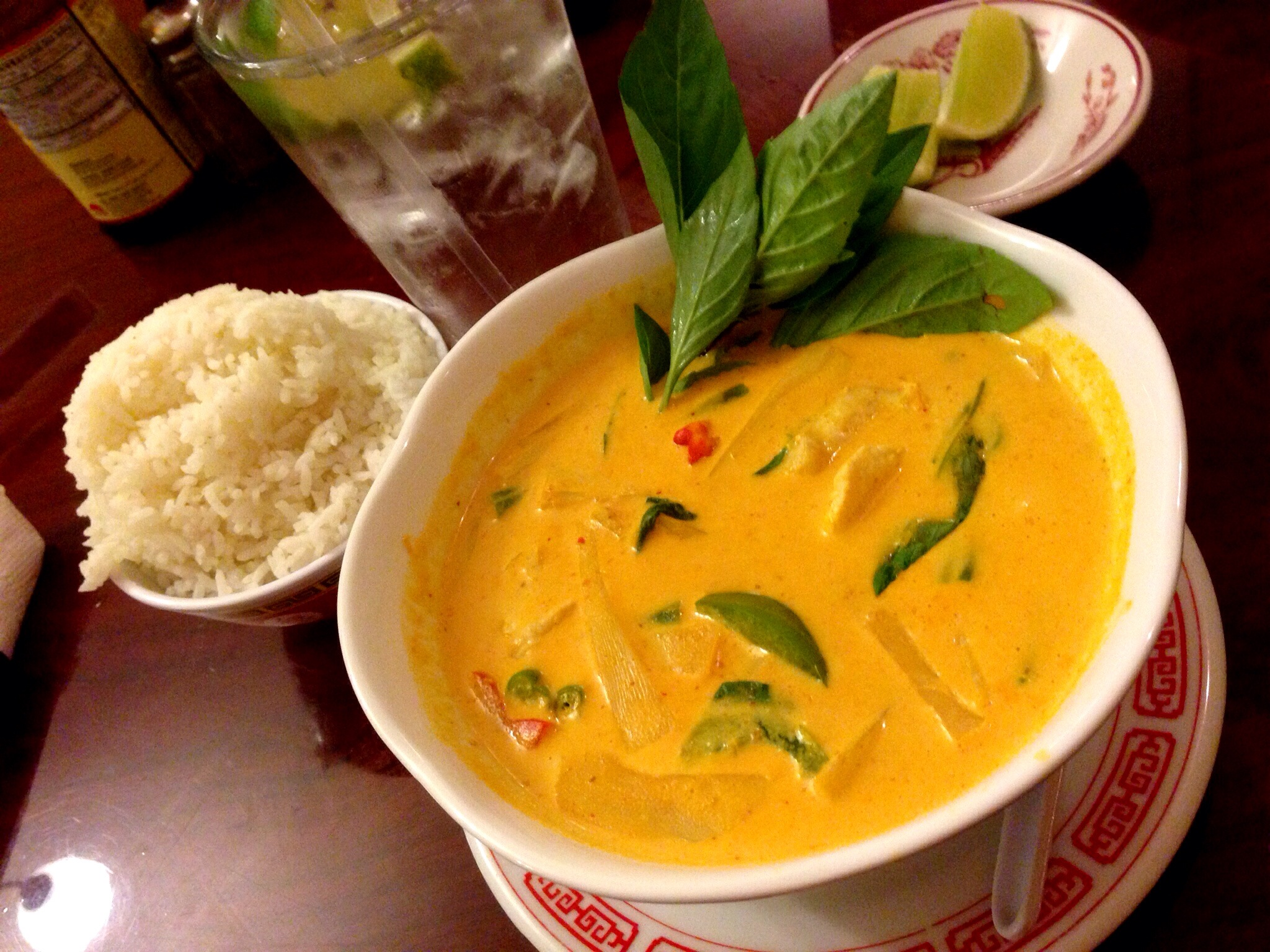 Vietnamese chicken coconut curry.